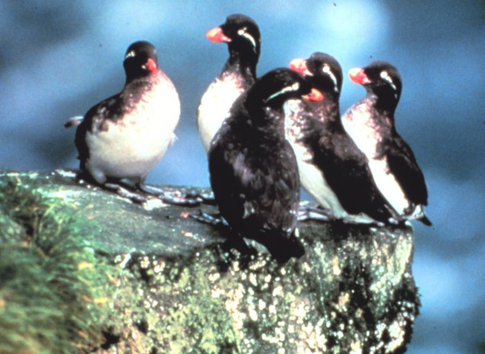 Parakeet Auklets